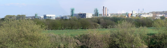 Countryside & Industry This photograph was taken near the confluence of the Rivers Aire and Calder (West bank of the Aire before the confluence). The principal subject is the chemical plant in Castleford (previously Hickson & Welch) located centre middle distance. Also in the shot to the right in the far distance on the horizon are the two tall chimneys of Ferrybridge Power Station. There is also a small amount of the cooling towers showing.